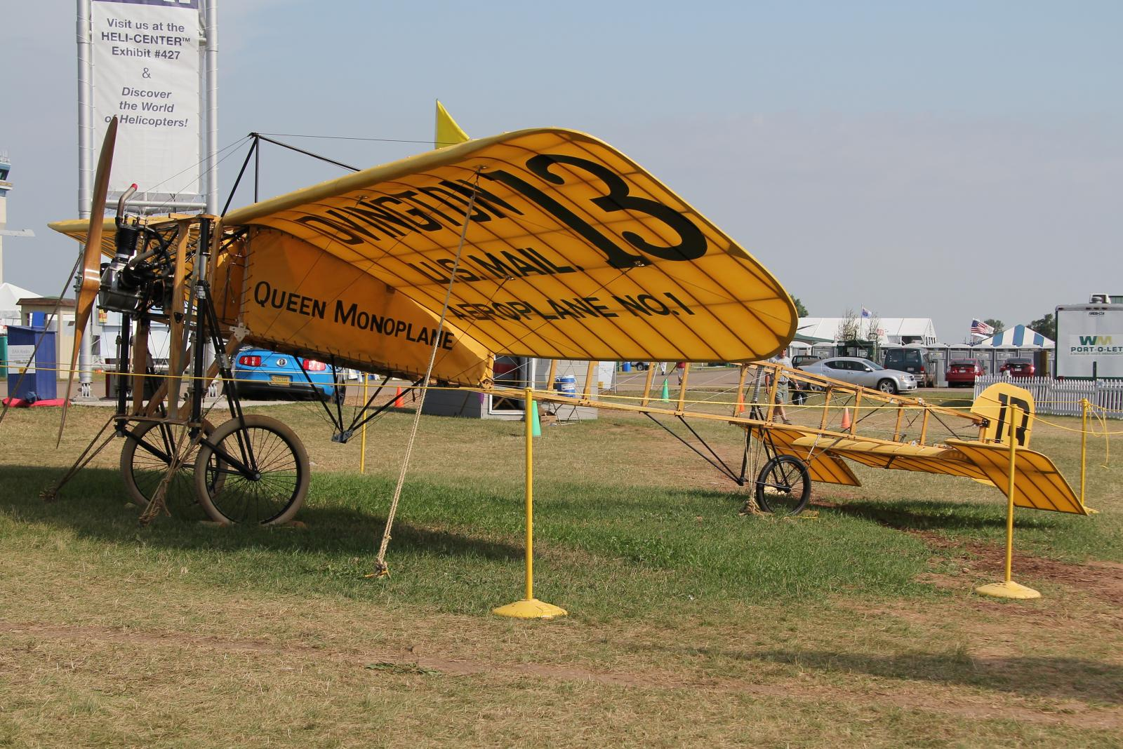 Blériot XI